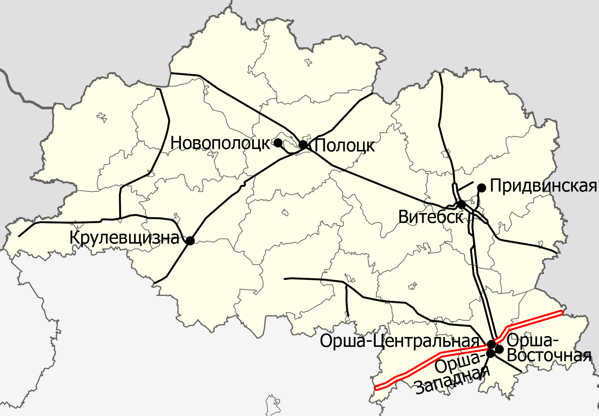 Railroads in Vicibeskaja voblasć, Belarus with main station signed. Electrified railroads are in red.